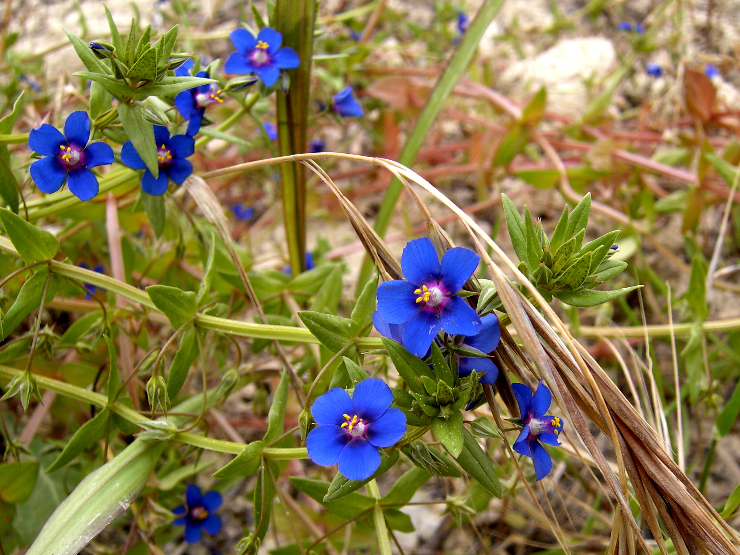 from Crete close to Heraklion airport (determined by user:RLJ)